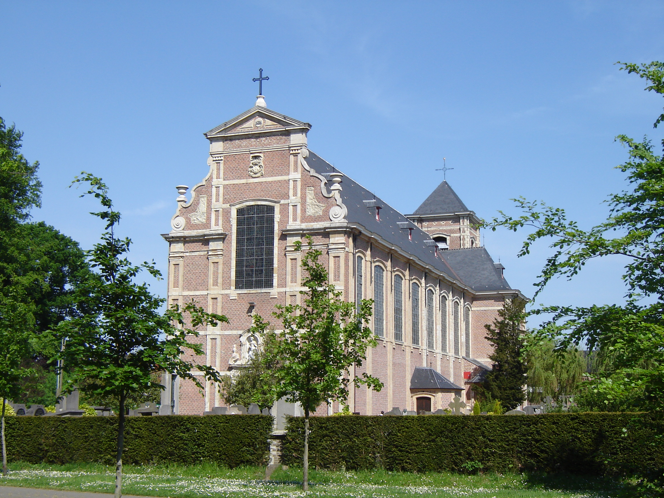 Church of Saint Catherine in Wondelgem. Wondelgem, Gent, East Flanders, Belgium